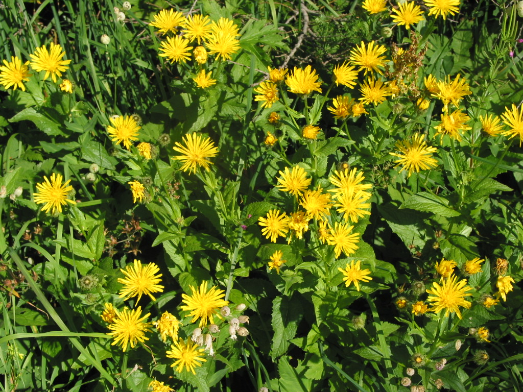 Crepis pyrenaica